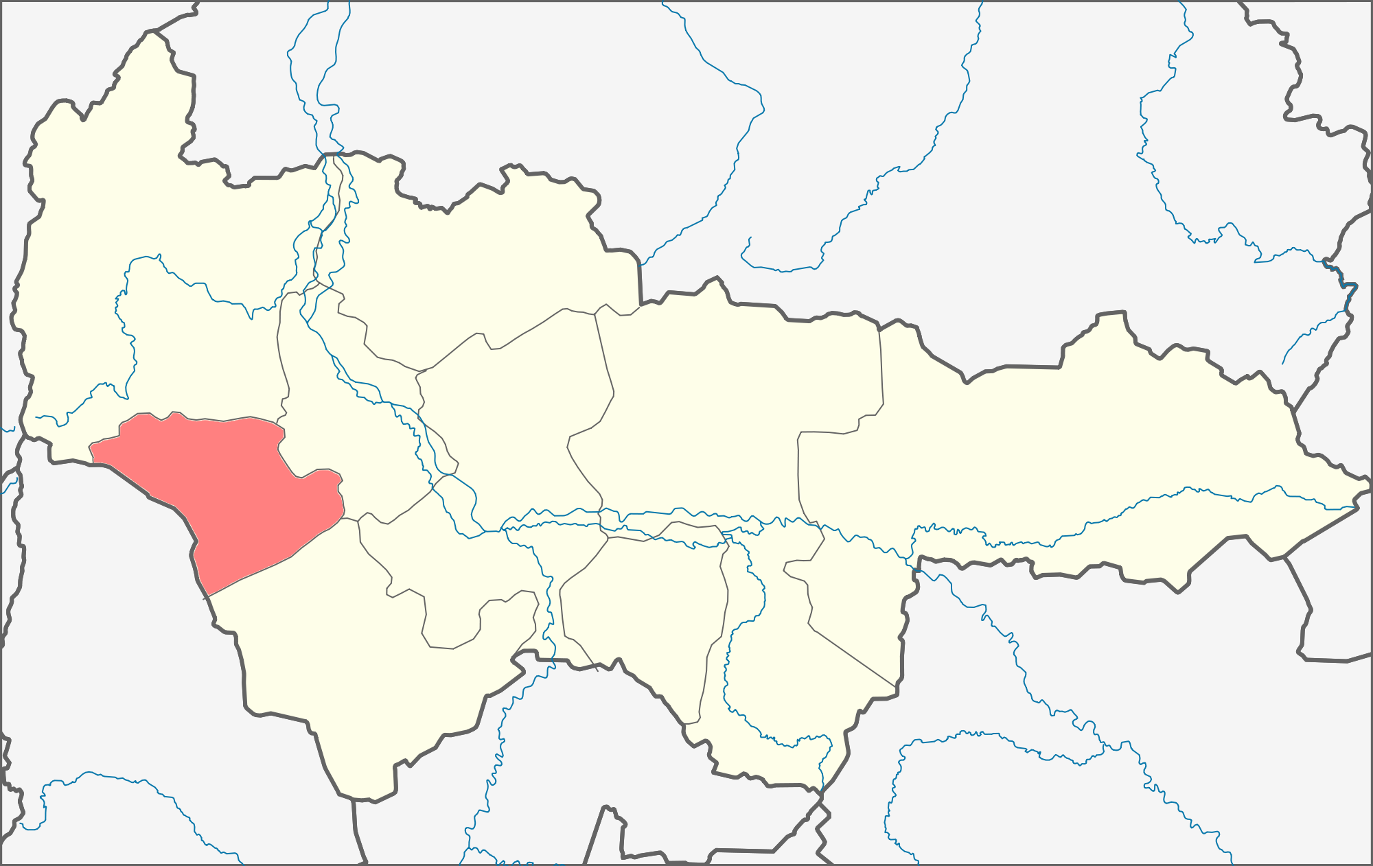 Location of Sovetsky District in the Khanty–Mansi Autonomous Okrug, Russia. This is a derivative work, based on